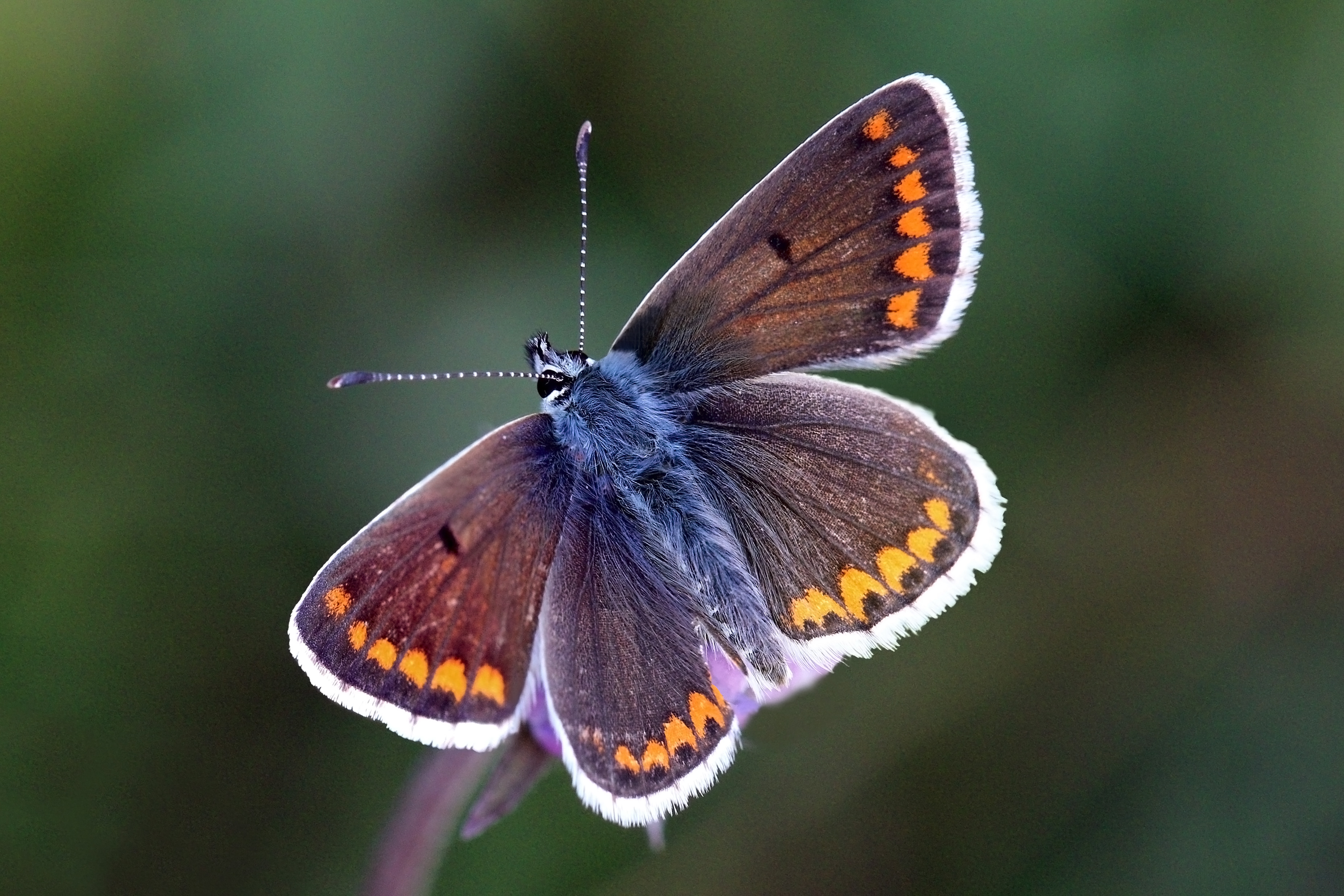 Brown argus (Aricia agestis) female, Beacon Hill, Hampshire